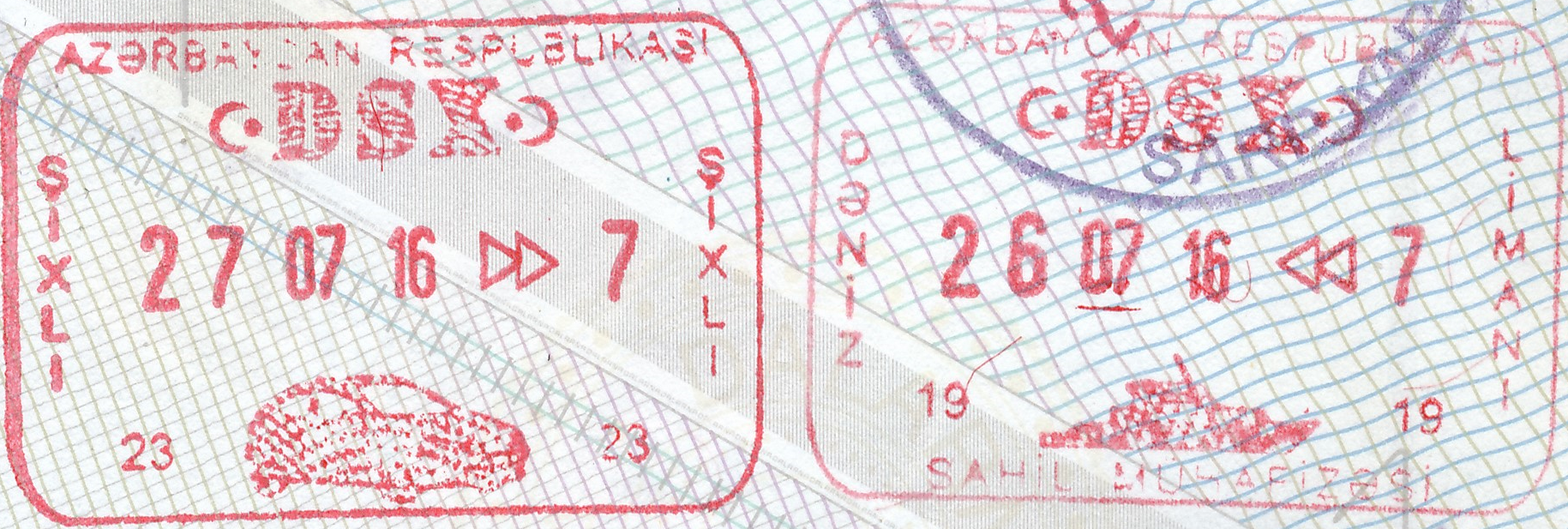 Azeri entry and exit stamps